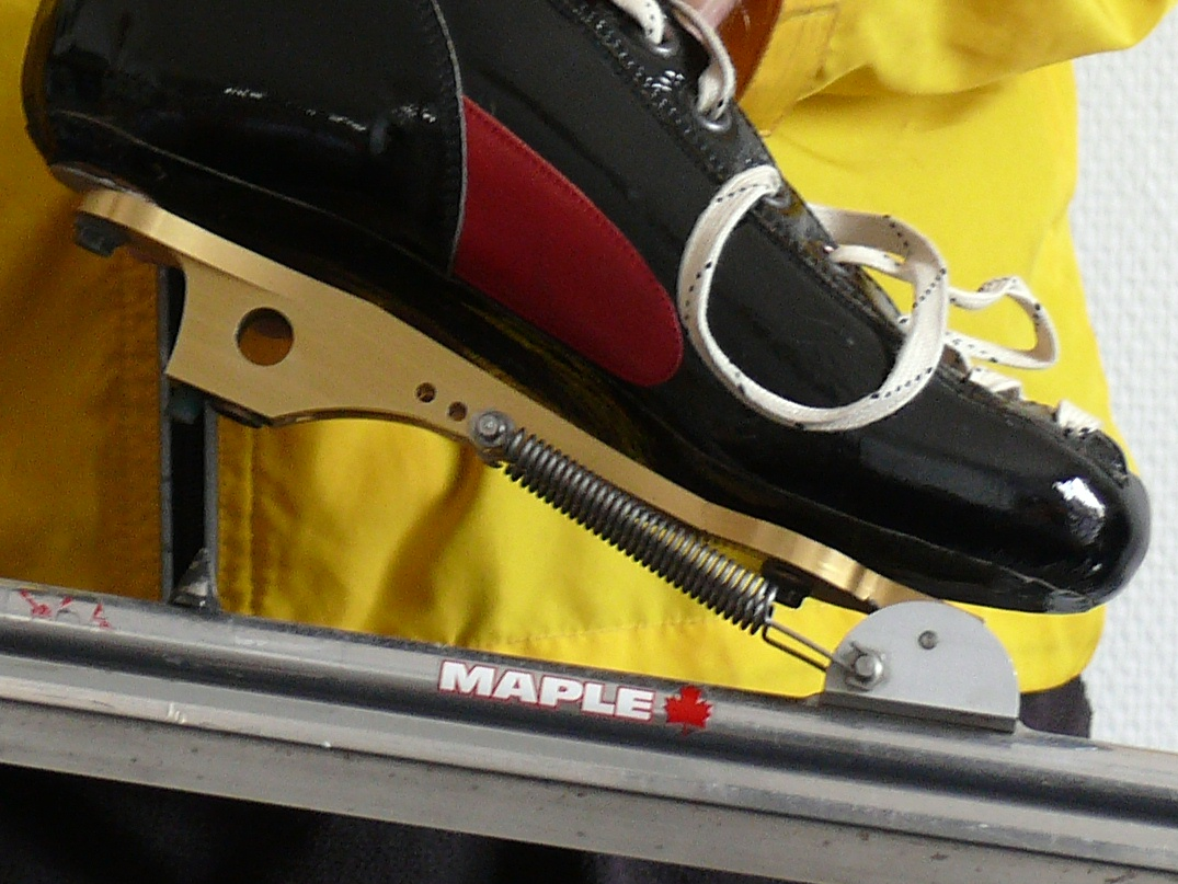 Max Dohle shows a clap skate